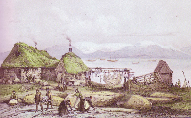 Icelandic fisherman's hut in Reykjavik in 1836. Drawing by Mayers in the expediton of Gaimard to Iceland. Probably Helluland, located around what is now Vesturgata 11. Mountain Esjan in background. Sennilega kotið Helluland sem stendur þar sem núna er Vesturgata 11 og á svipuðum stað og áður var veitingahúsið Naustið. Esjan í baksýn.